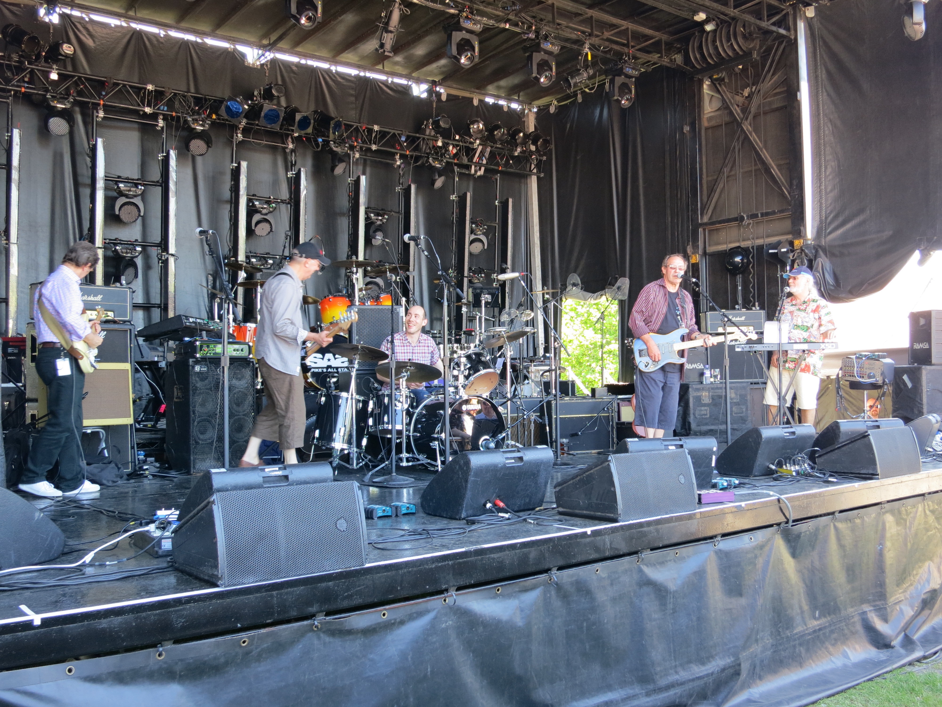 Dave Kelly Blues Band